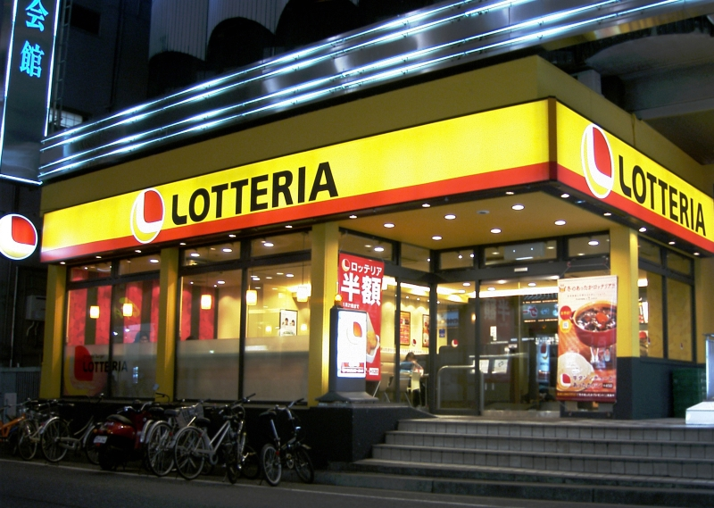 Lotteria_Fast food restaurants Japan photography day, 2006.11.14. photography person kici